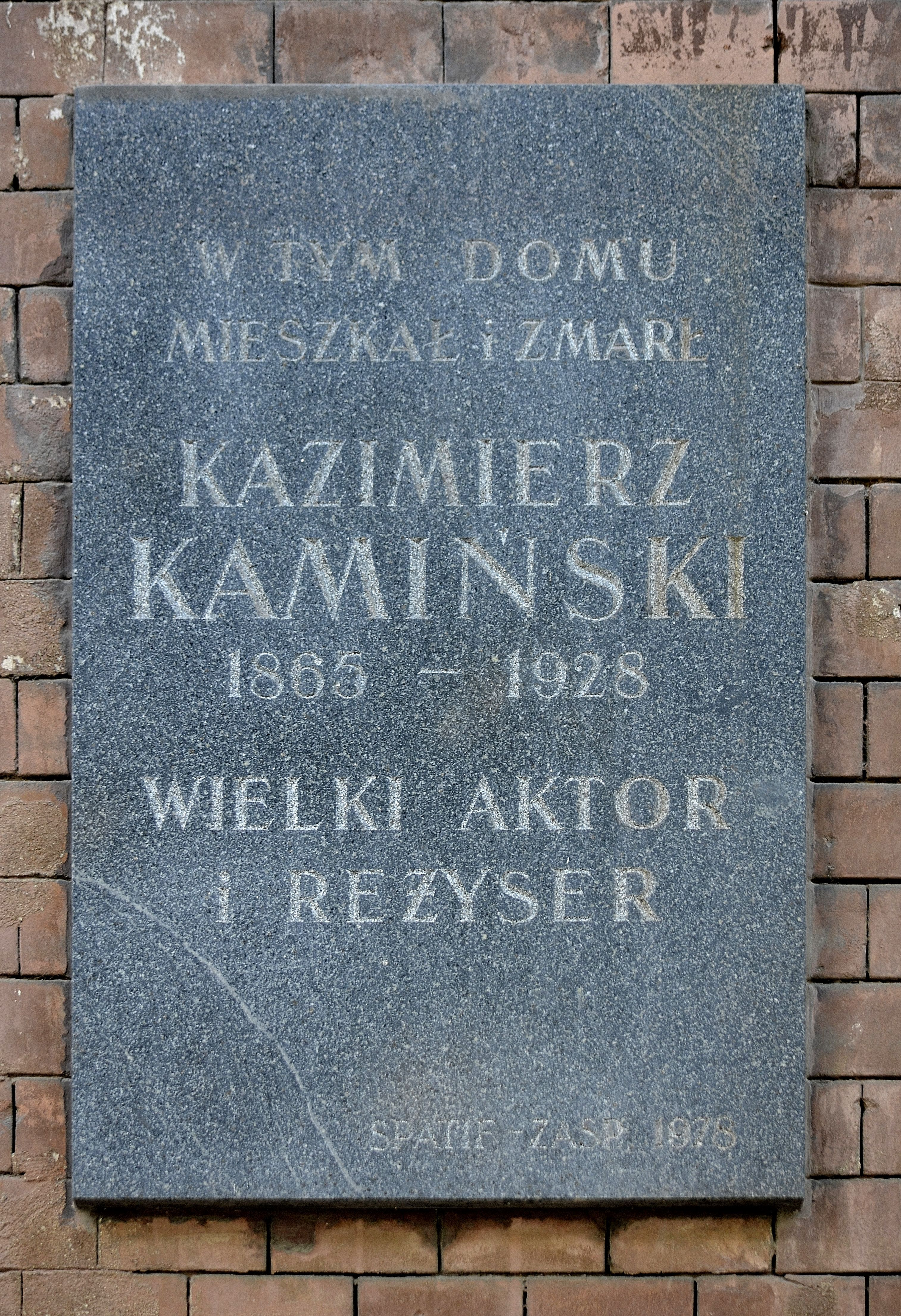 Plaque in memory of Kazimierz Kamiński at 21 Wiejska Street in Warsaw